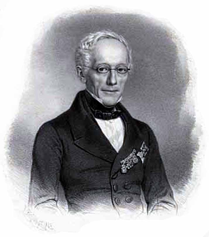 The bavarian treasury-minister Karl August Joseph Maria Donatus Graf von Seinsheim (1784.1864)